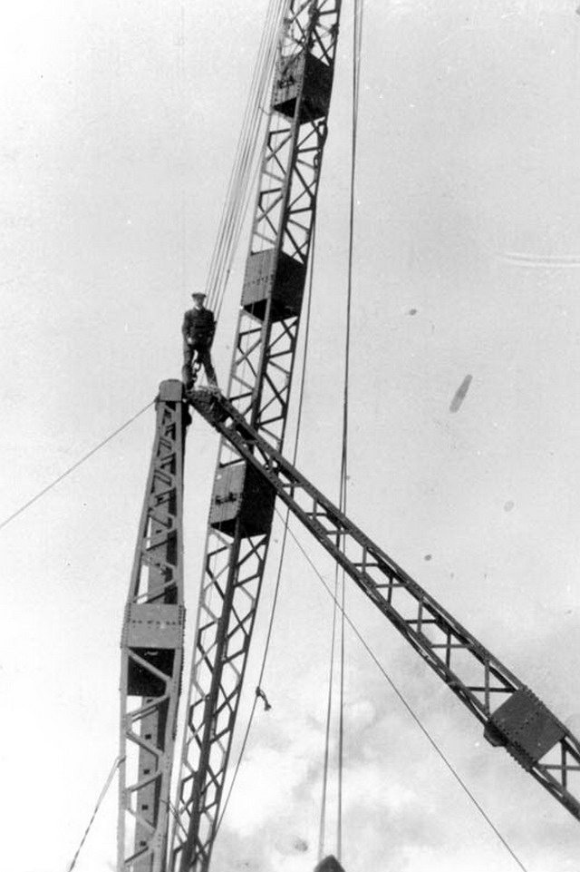 Beales taking pictures from atop a derrick, 1915. Toronto Port Authority Archives, PC 15/3/728.